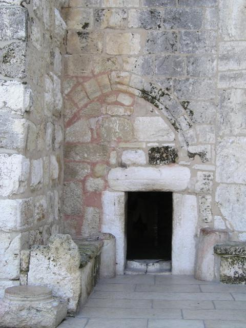 The Church of the Nativity, main entrance.